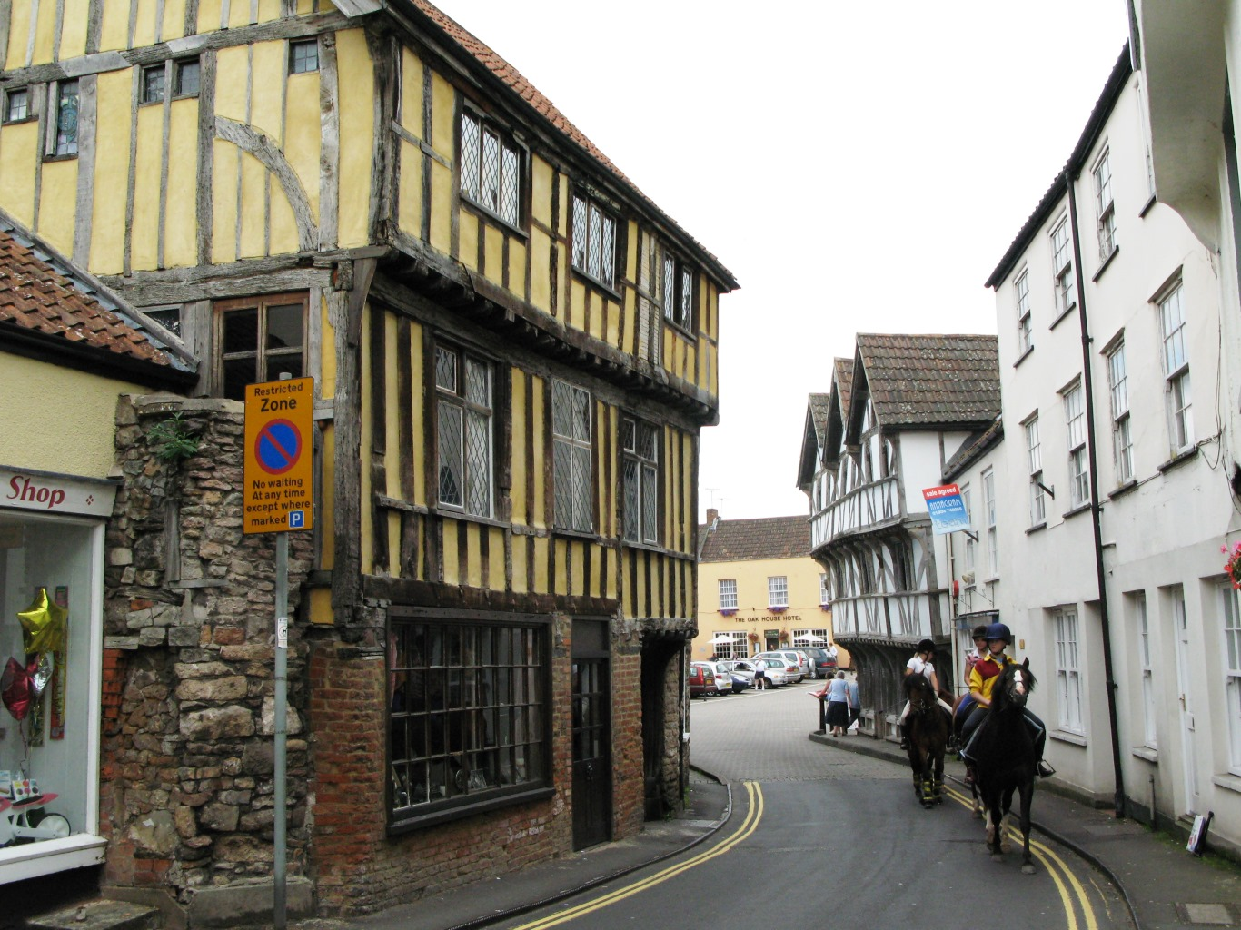 View east along High Street, Axbridge, Somerset, toward The Square. The timber-framed yellow building centre left is nos 2–4 High Street. The timber-framed whilte building beyond it is King John's Hunting Lodge. On the right are nos 3, 5 and 7 High Street, which are 16th- or 17th-century